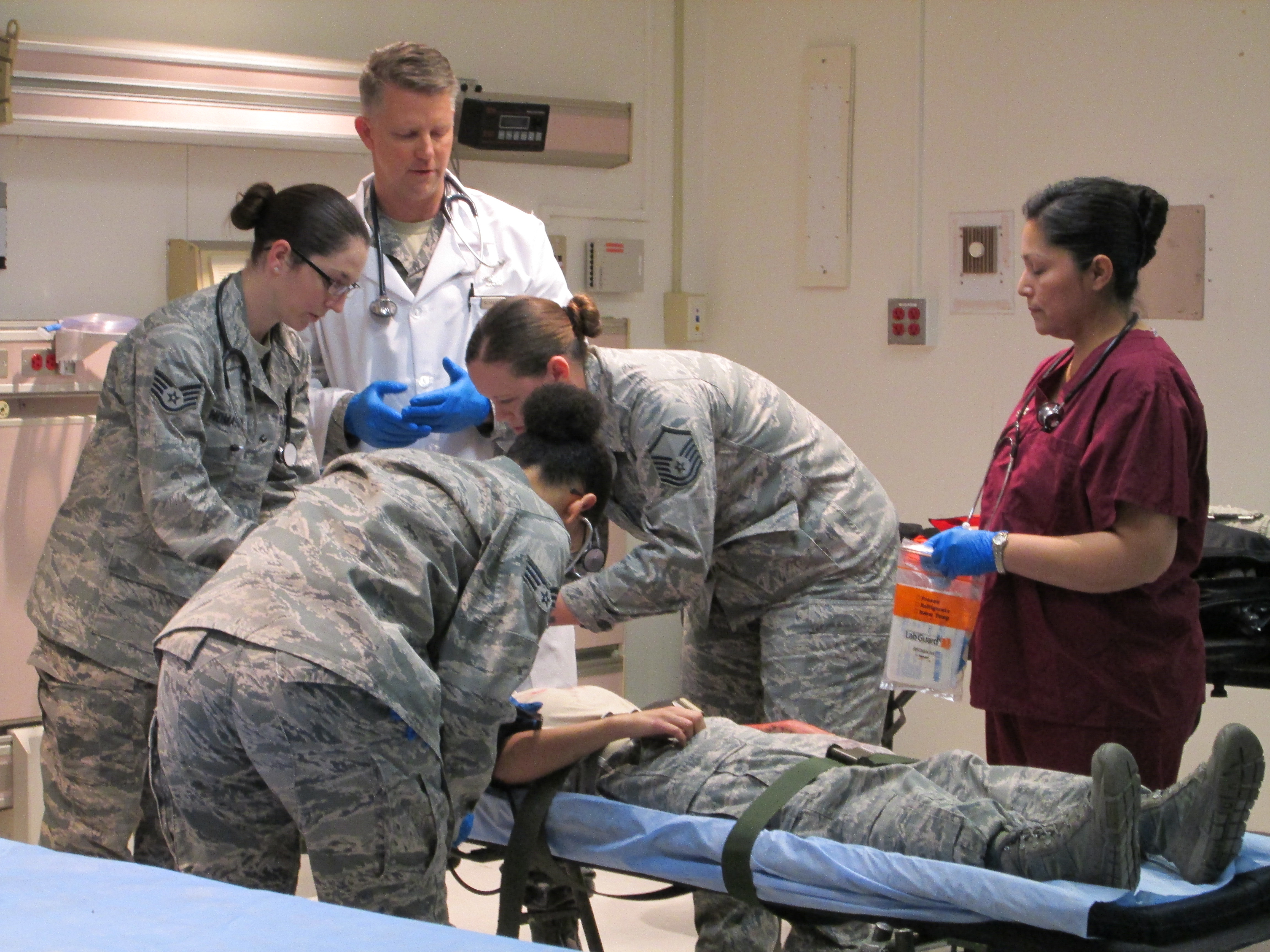 U.S. Air Force Col. Christopher Scharenbrock, in white, a physician assigned to the 79th Medical Wing (MDW), oversees the care of a simulated trauma victim during training at Joint Base Andrews, Md., Jan. 10, 2013. The training ensured that the 79th MDW was ready to provide a medical response for the 57th Presidential Inauguration. President Barack H. Obama was elected to a second four-year term in office Nov. 6, 2012. More than 5,000 U.S. Service members participated in or supported the inauguration.